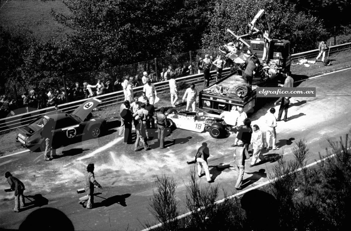 Niki Lauda car crash in Nurburbring